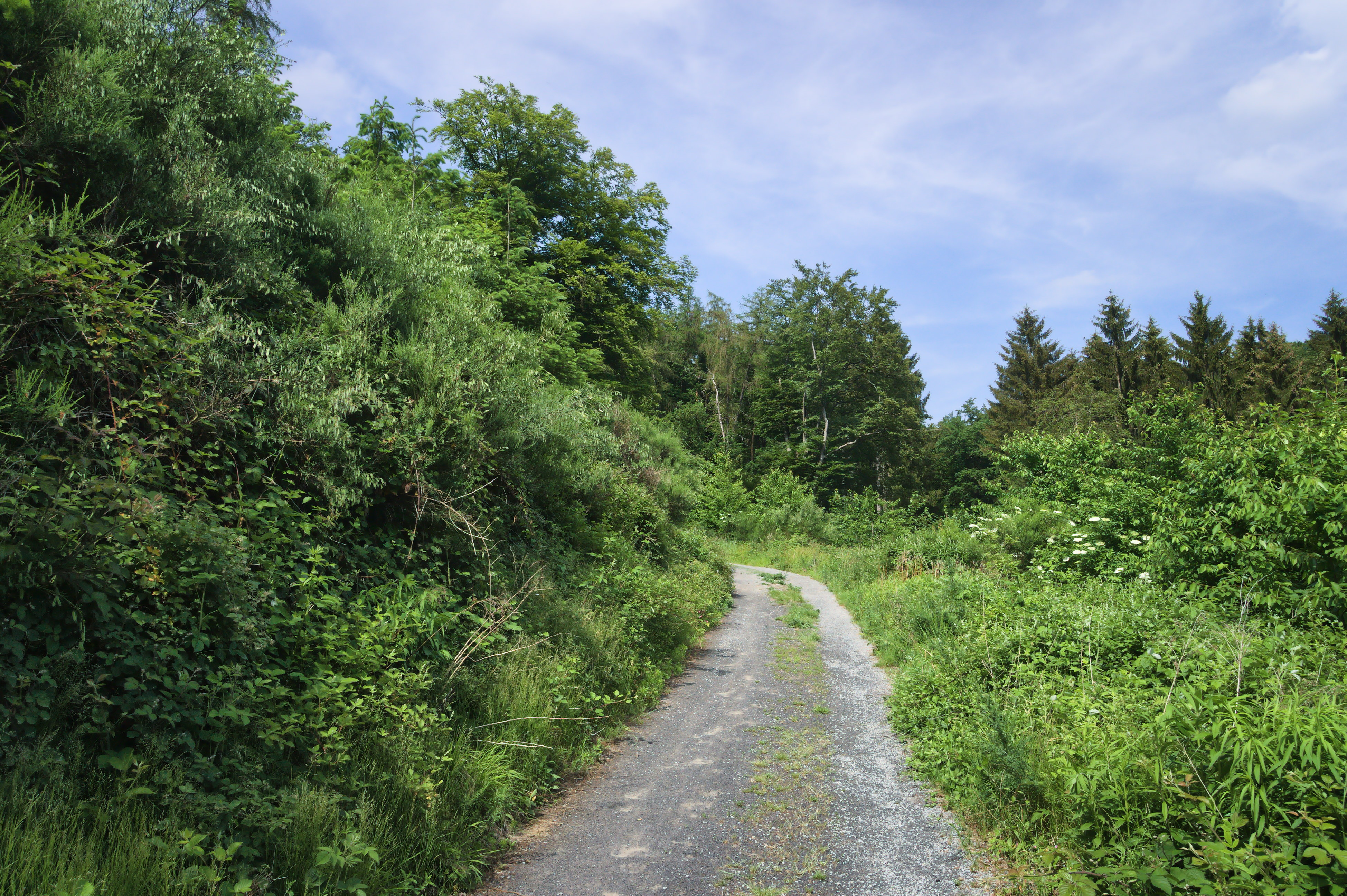 Above Brexbach valley, Westerwald, Germany. View to the northeast. Part of flora fauna habitate (FFH) FFH-5511-302 Brexbach- und Saynbachtal and landscape conservation area 07-LSG-7143-016 Saynbach-, Brexbach- und Grossbachtal